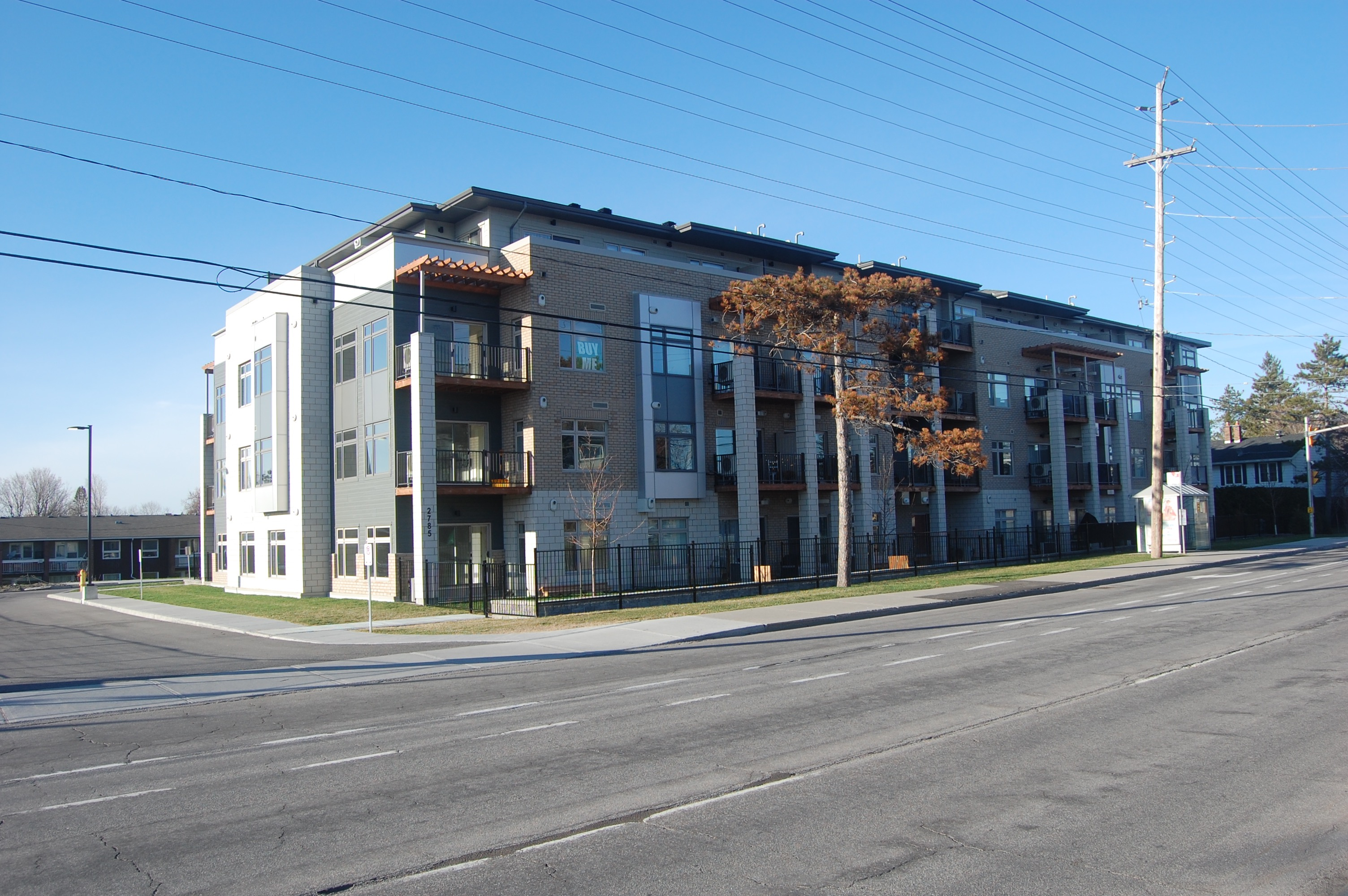 First building completed of the Qualicum Woods Crossing condominium development.